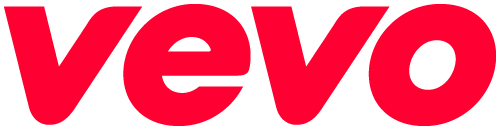 VEVO logo